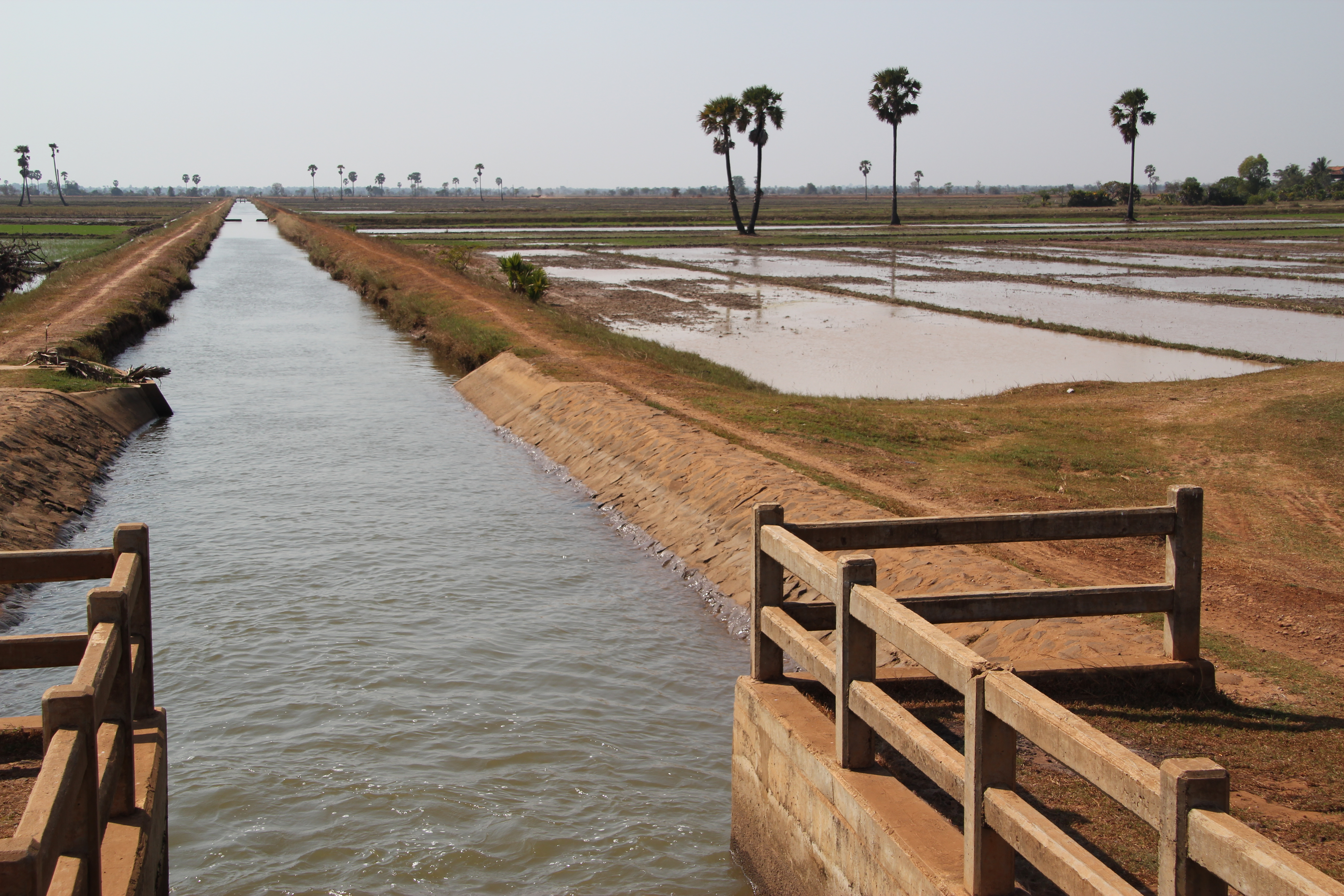 Photo: Chris Graham/AusAID To request a high resolution copy